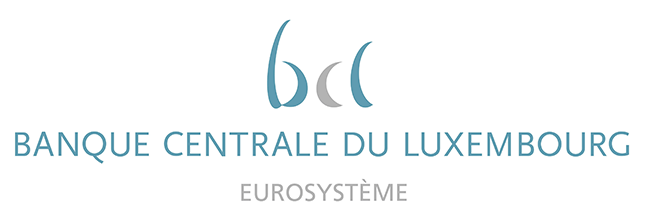 Logo central bank of luxembourg